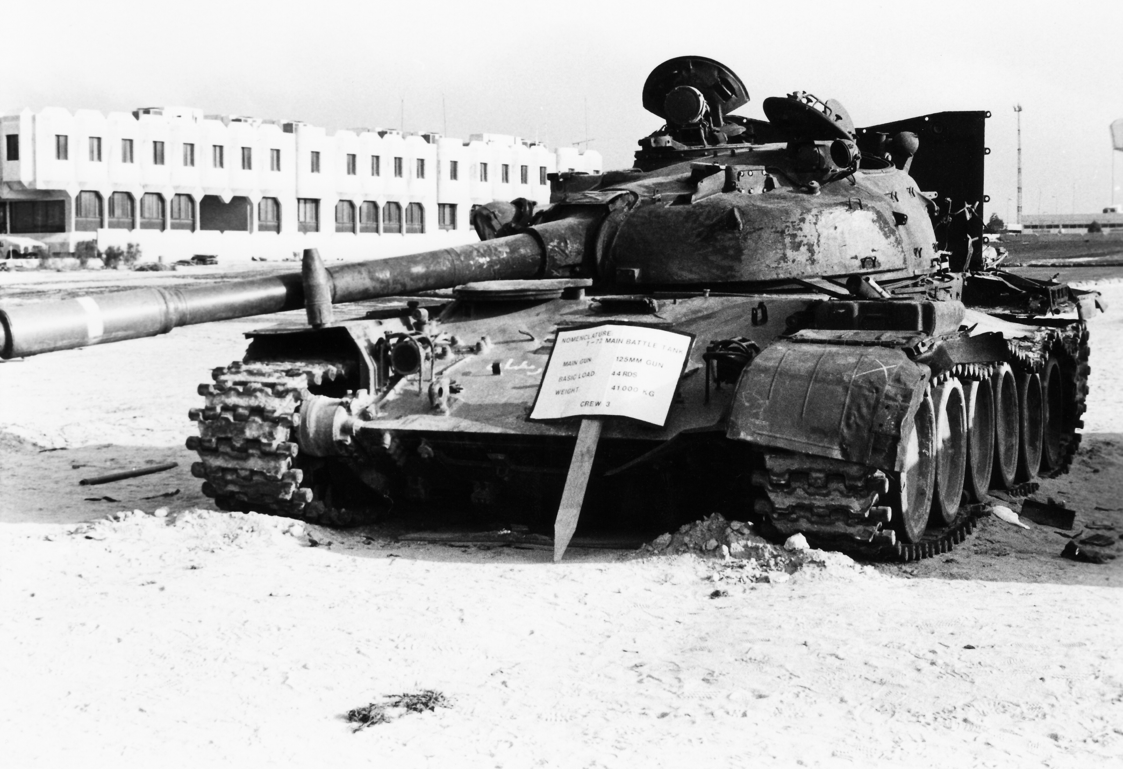 An Iraqi T-72 tank disabled by an American mechanized infantry unit during the Gulf War.